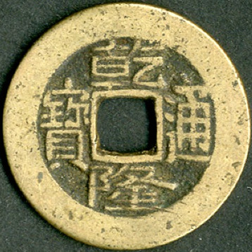 This is a photo of a coin of China, the coin was minted in the Qianlong Era (1735–1796). According to the copyright law in China, it has been in public domain.